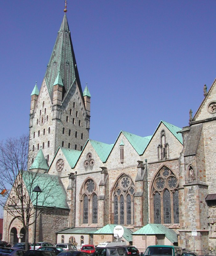 South side of the Paderborn Cathedral, Germany